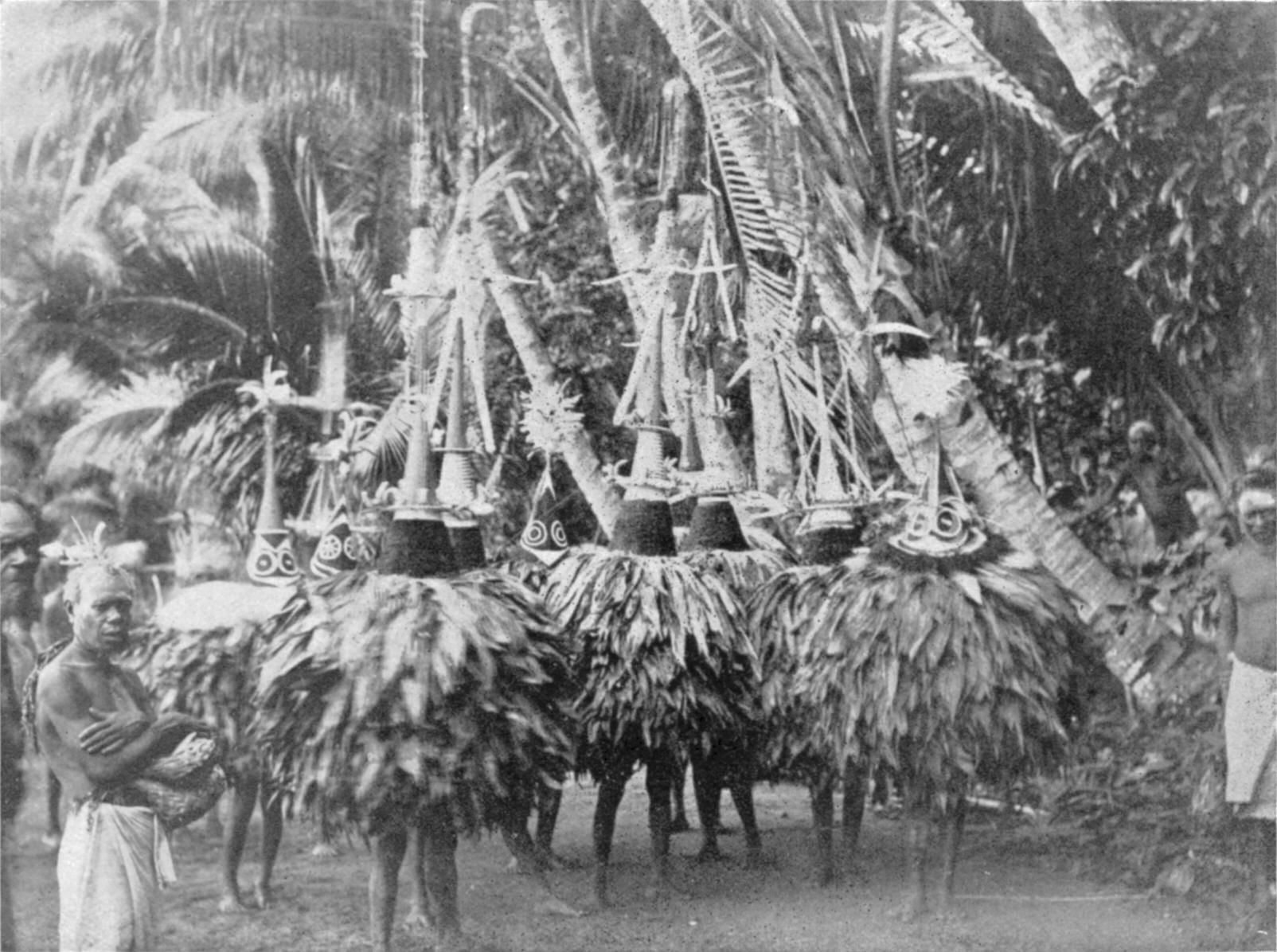 Tolai people, Gazelle Peninsula of New Britain, Papua New Guinea: Duk-Duk dancers; the Duk-Duk is a secret society of men, also present on neighbouring New Ireland Island (late 19th century; printed 1908).